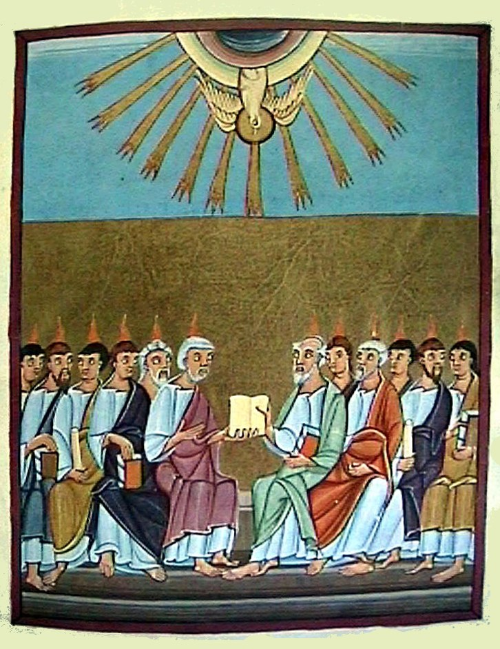 correction